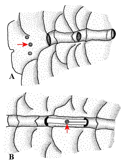 Dorsal lateral line of Gvozdarus svetovidovi, 2nd known specimen: female, 613 mm TL, 515 mm SL, 21 Januray 1988, Enderby Land, Antarctica (described in: Shandikov G.A. & Kratkiy V.Y. (1990). Journal of Ichthyology. 30(8). P. 143-147